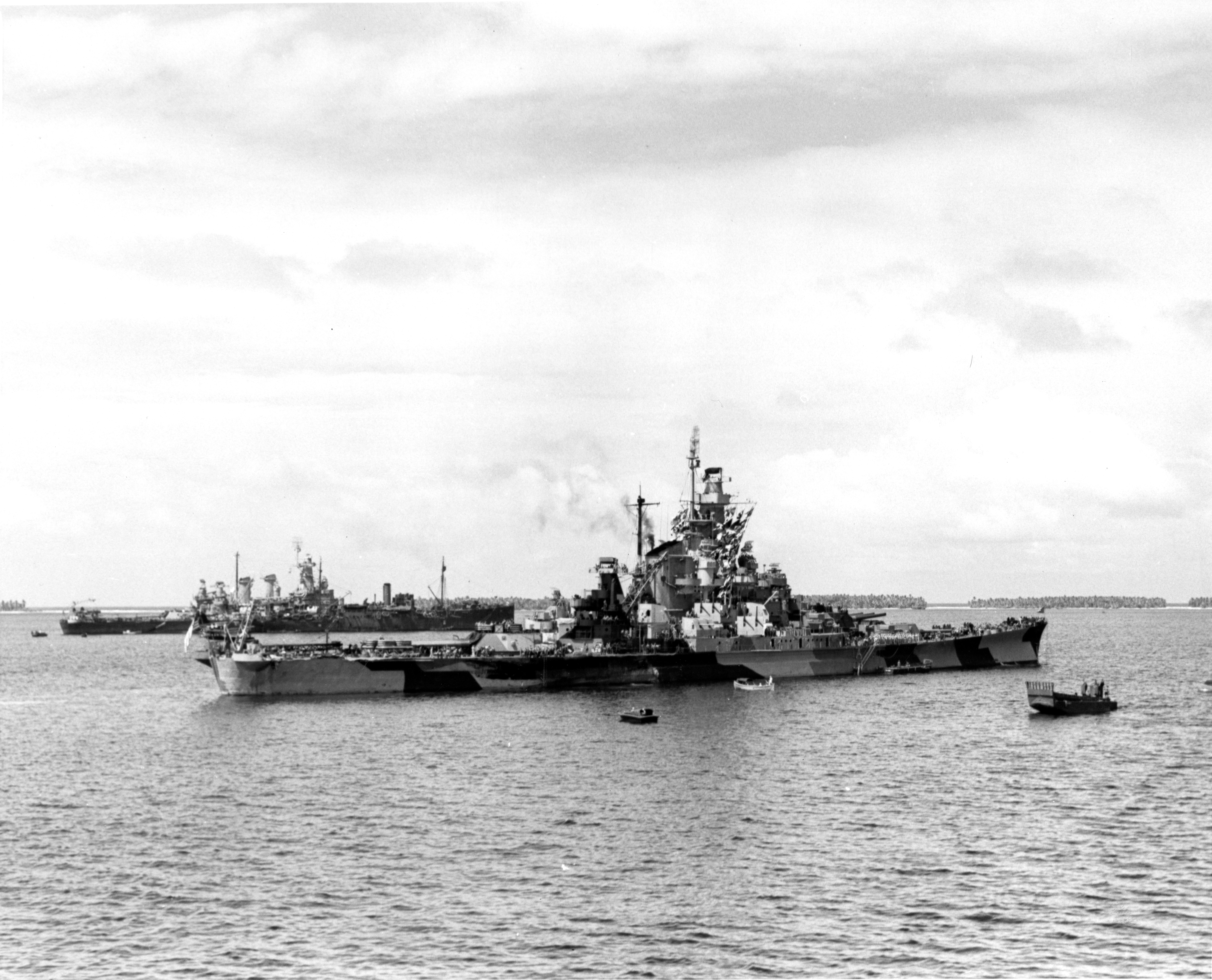 USS Indiana at Majuro after collision with USS Washington, February 1944